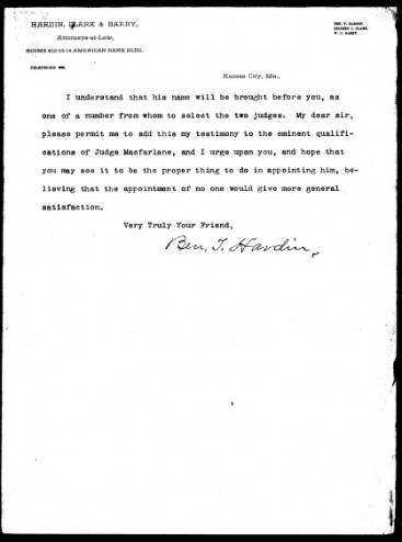 Appointments—Judges: Ben T. Hardin, Kansas City, Jackson County; recommends George Bennett MacFarlane for Supreme Court; Mexico, Audrain County